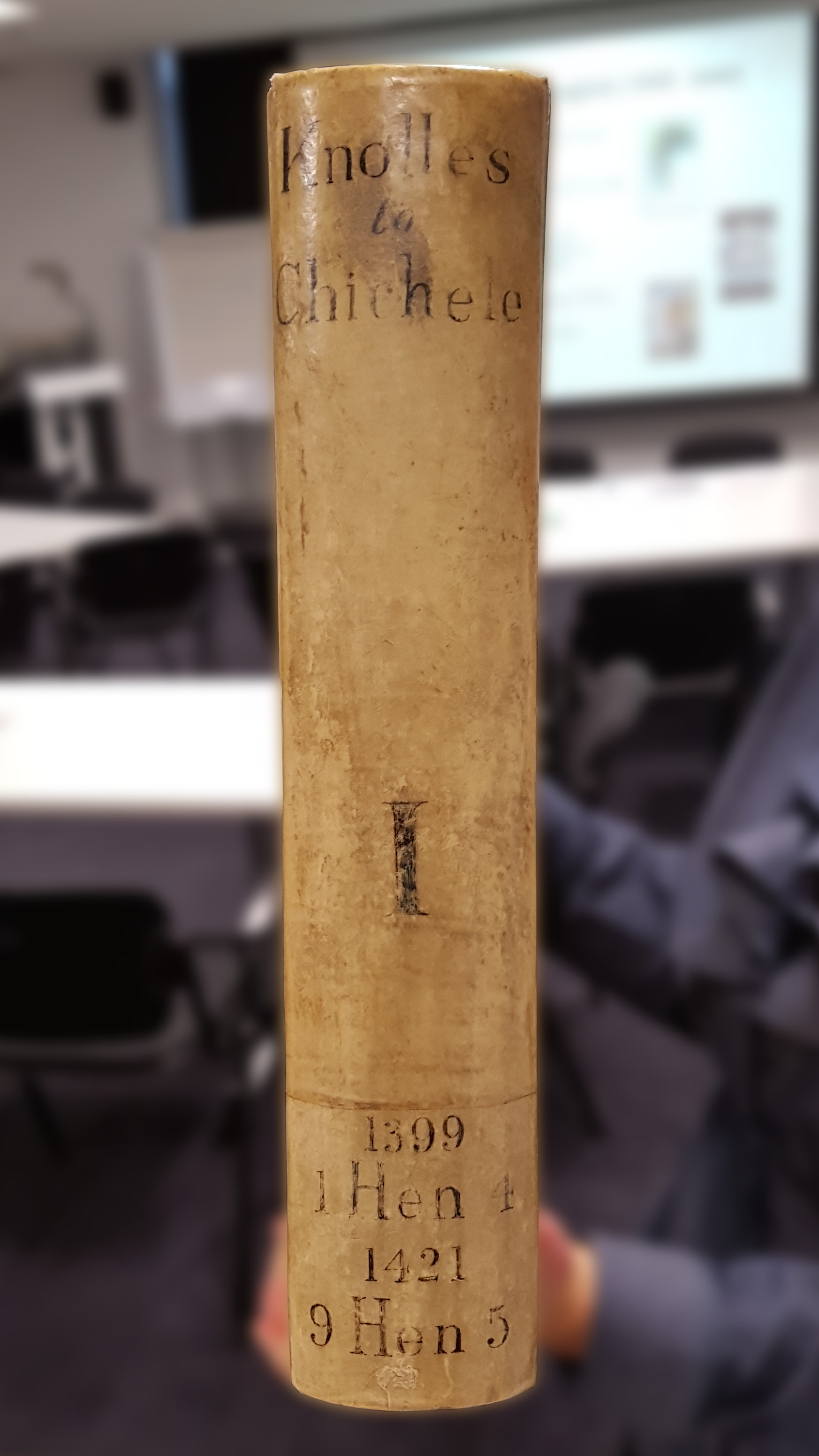 The spine of Book I of the Letter-Books of the City of London, written during the period 1399-1421 AD, showing entries in English, French, and Latin, on display at the London Metropolitan Archives.